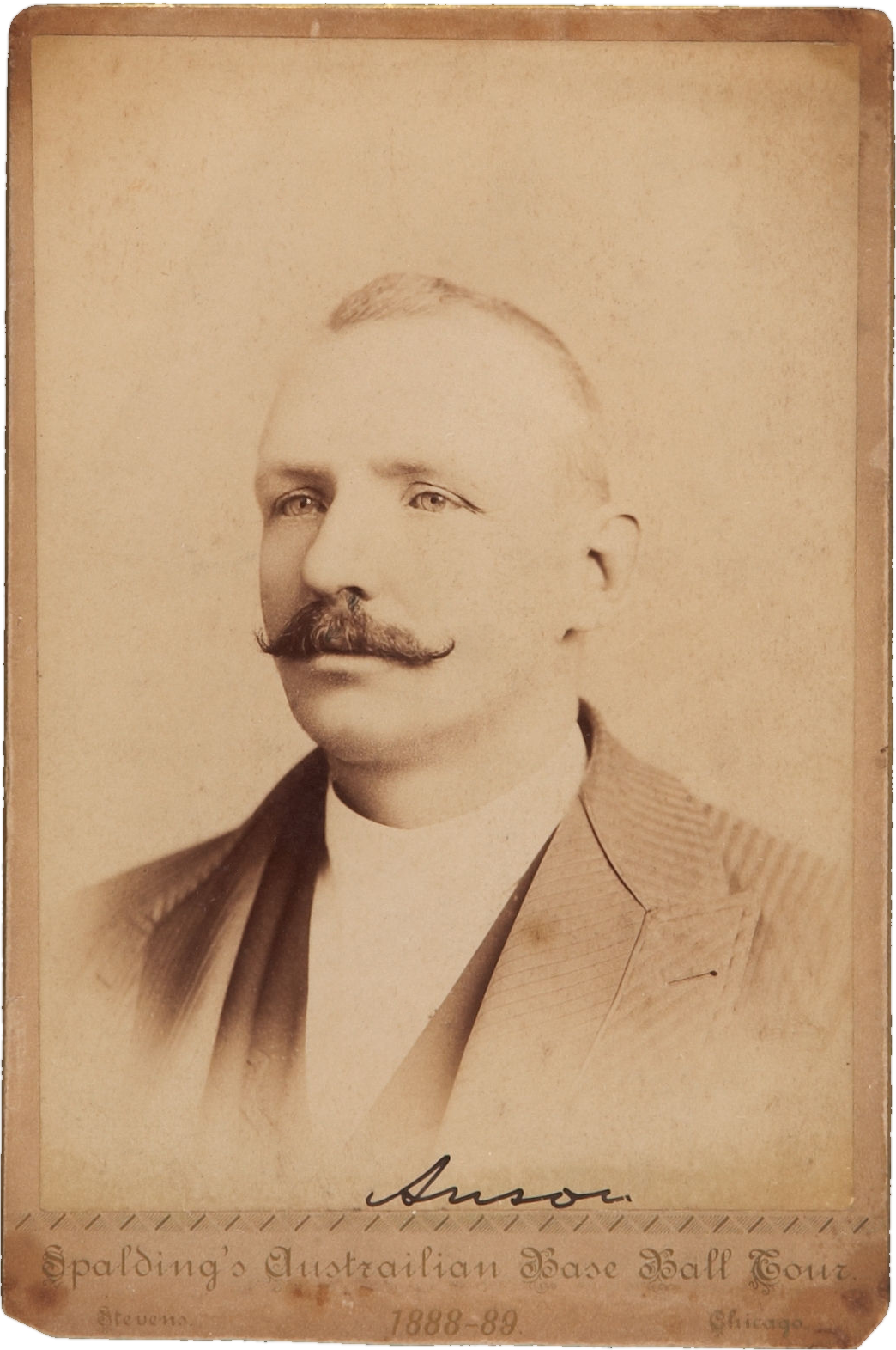 "Spalding's Australian Base Ball Tour" Cap Anson Cabinet Photo.